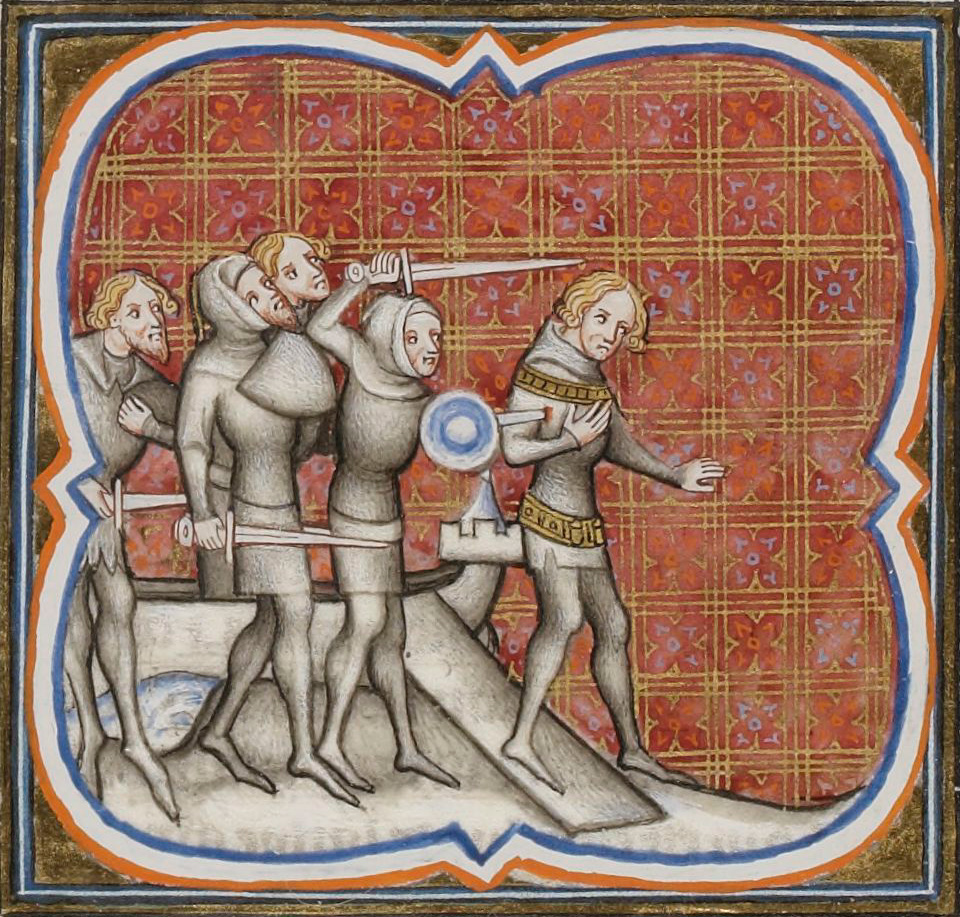 Murder of William Longsword, duke of Normandy, in 942.